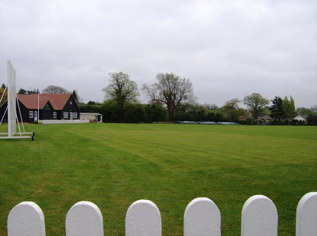 Oakham cricket ground A typical small, urban cricket ground. A strong hit would clear the white fence where I am standing and go into the busy road behind me.